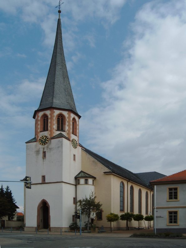 Church in St. Leon-Rot